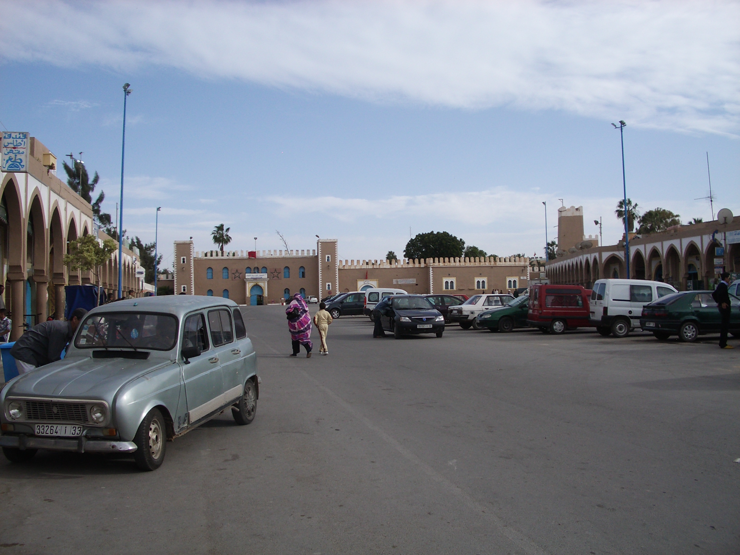 Tiznit (Marocco) - main place